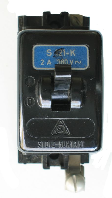 Circuit breaker made by the German company Stotz in the 1950s